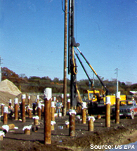 Raymark Industries cleanup, ; , Stratford, CT. Raymark Industries, Incorporated cleanup; Stratford, Connecticut Steel pilings were installed into the protective cover to support the development of a shopping center following cleanup, circa 1987-88.